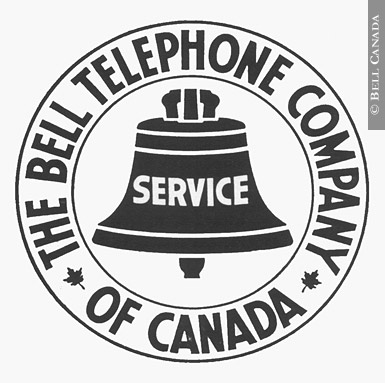 The Bell Telephone Company of Canada logo with maple leaves. This artefact belongs to: © Bell Canada